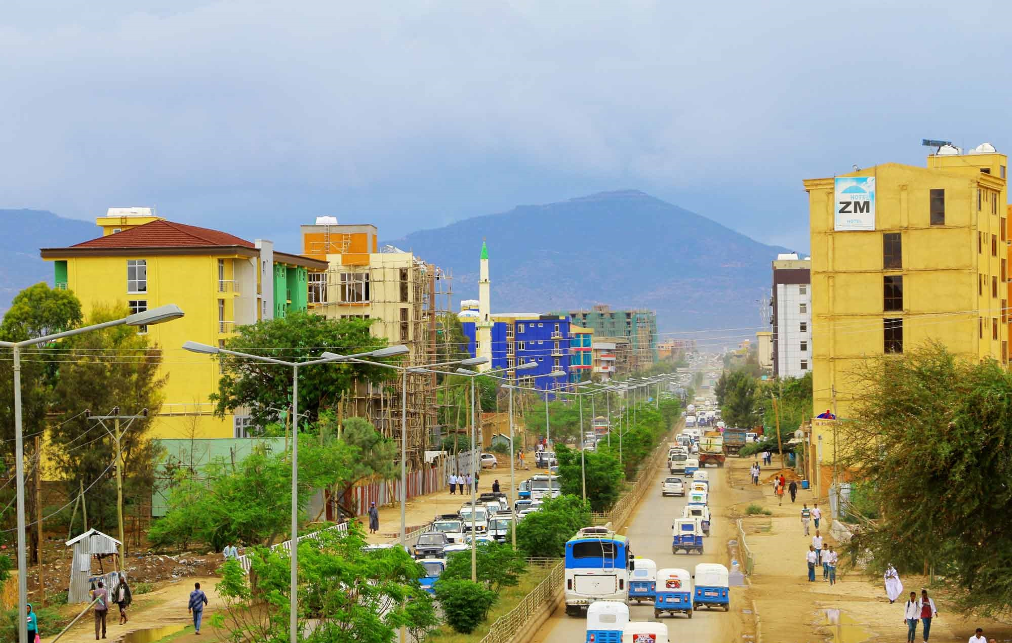 Main Street